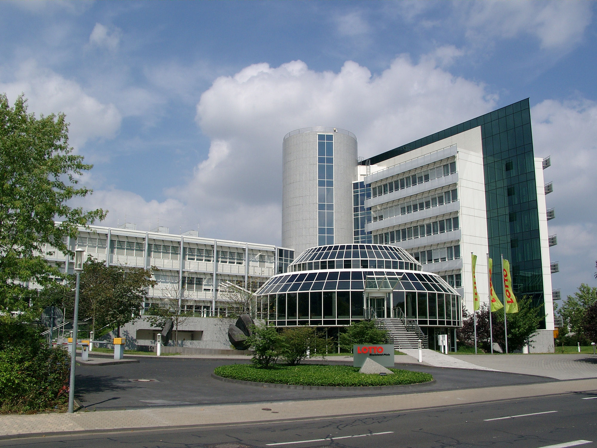 Lotto Rheinland-Pfalz in Koblenz